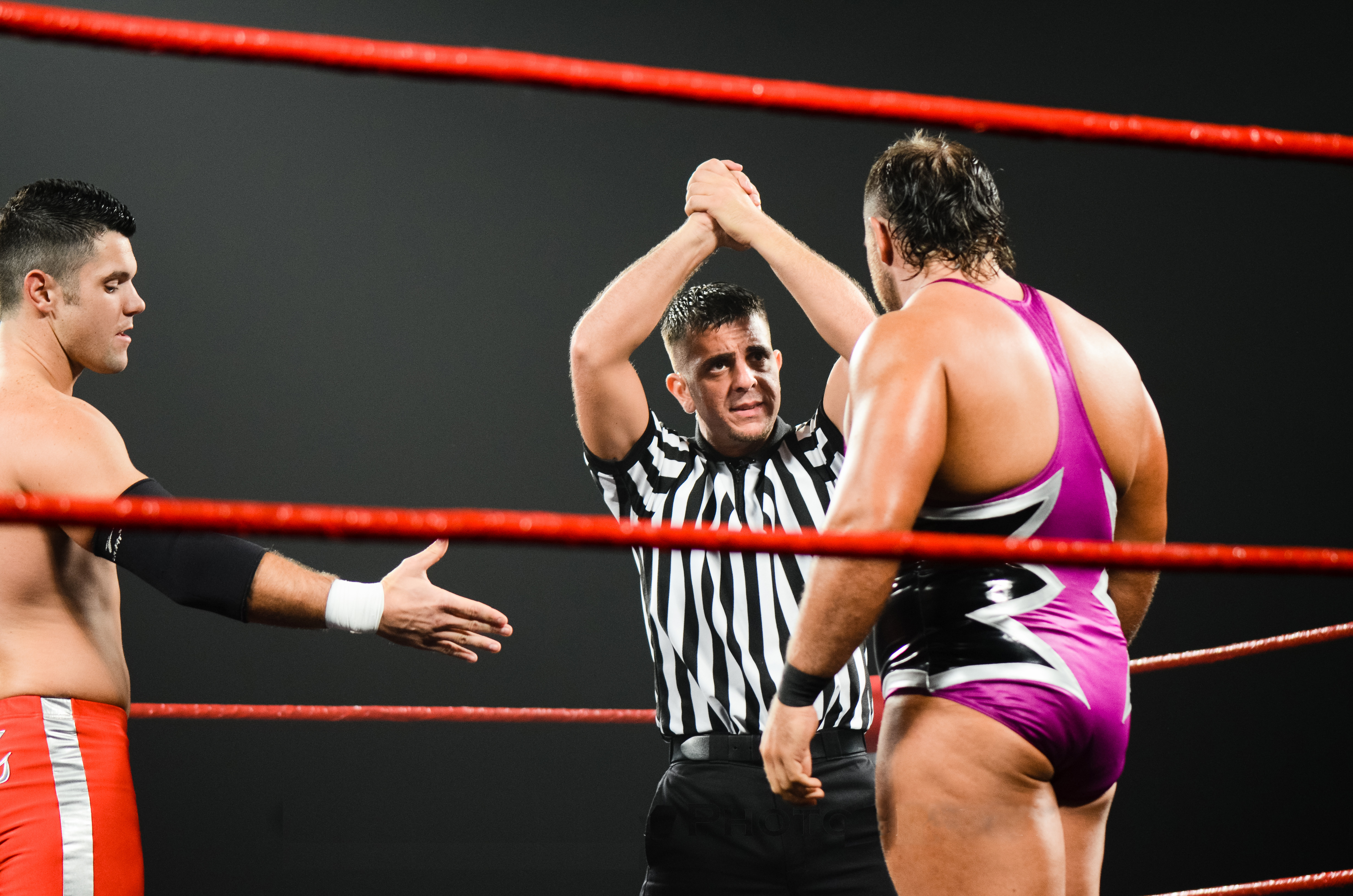 Eddie Edwards offers to shake the hand of Michael Elgin